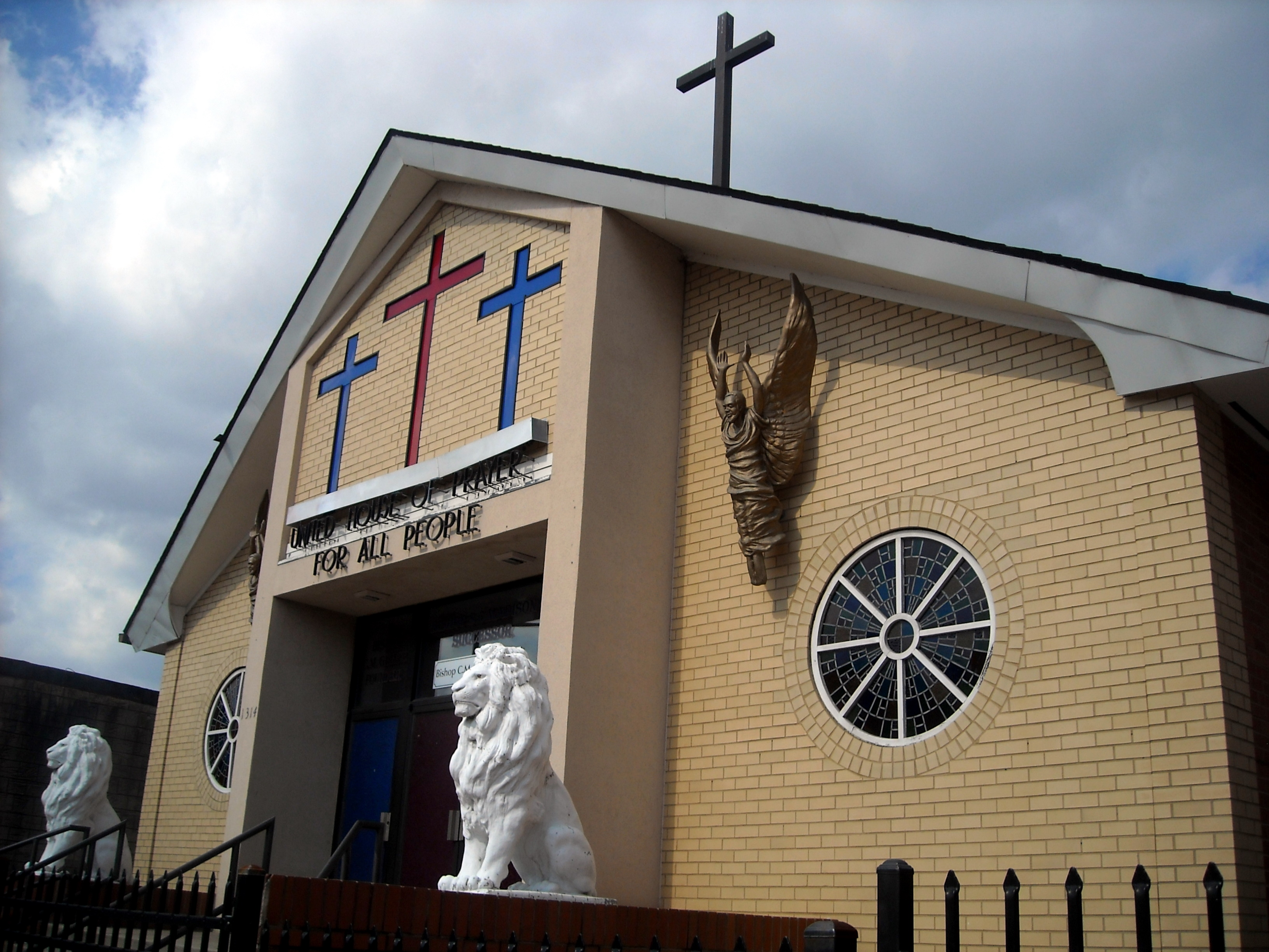 United House of Prayer for All People, located at 1314 H Street, N.E., in the Near Northeast neighborhood of Washington, D.C.